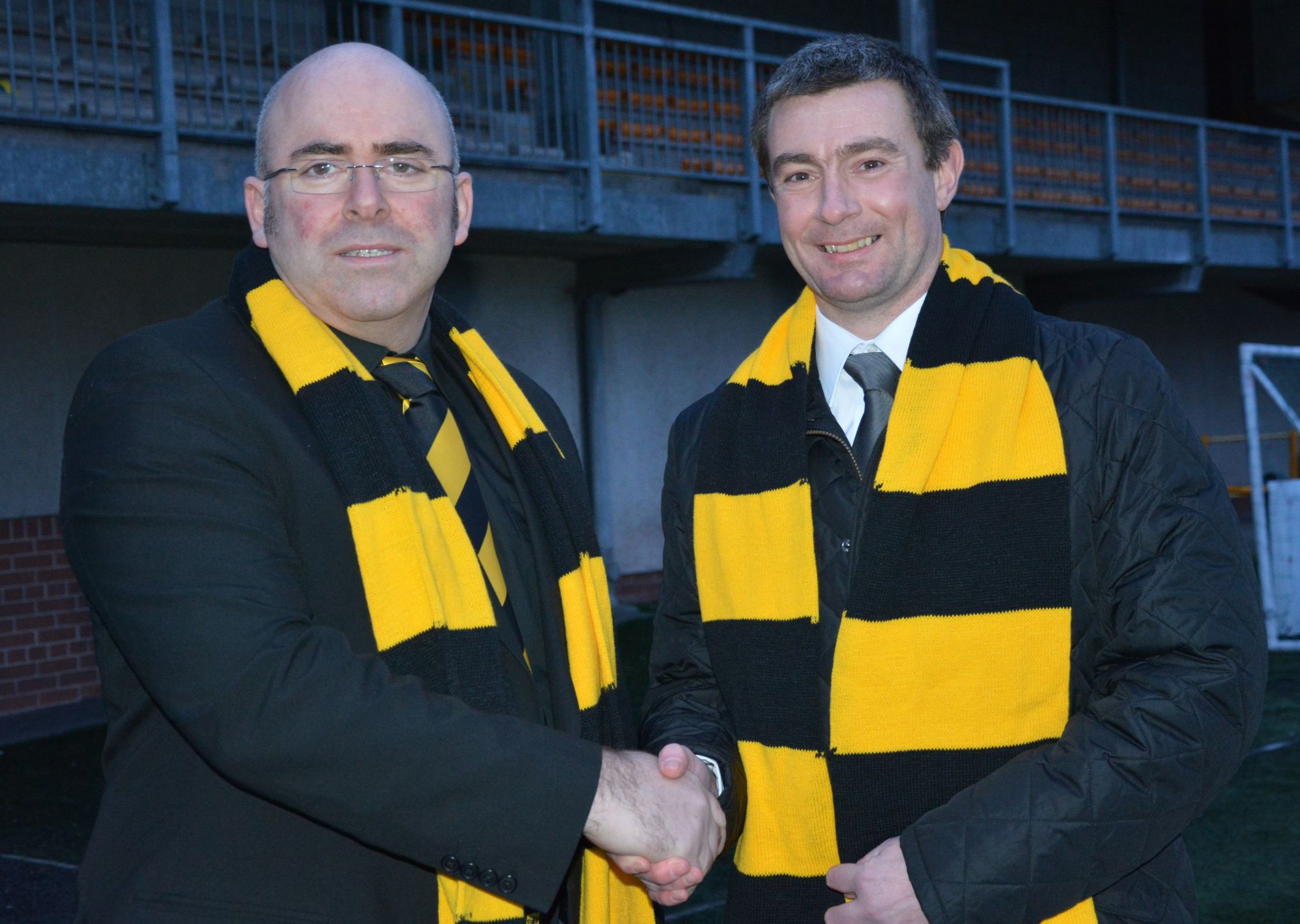 Alloa Chairman Shakes Hands With New Alloa Manager Barry Smith